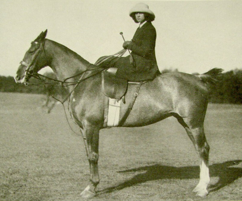 1915 Muriel Vanderbilt photo